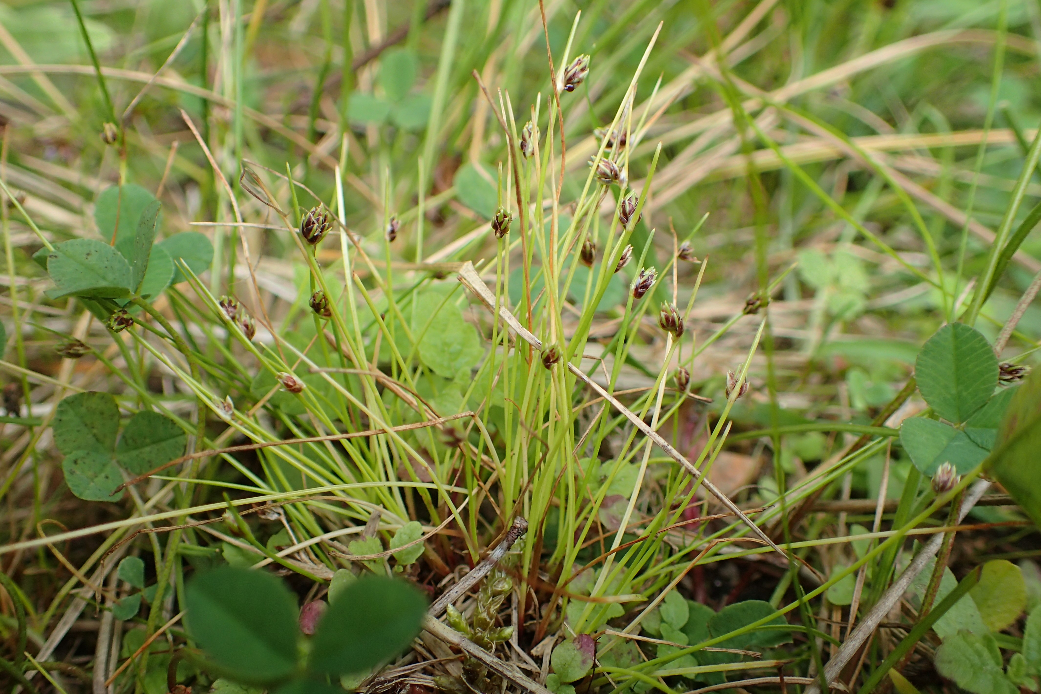 Isolepis setacea on wet meadow N from Karlino, NW Poland